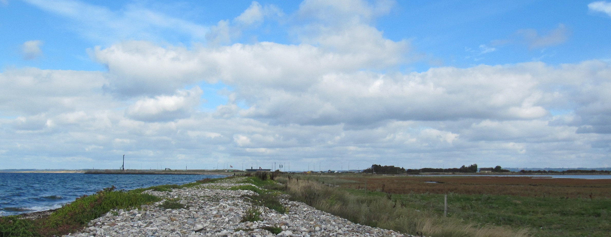 The nature reserve Bøjden Nor in the southwestern part of Funen, Denmark. Bøjden Nor to the right and Little Belt to the left.